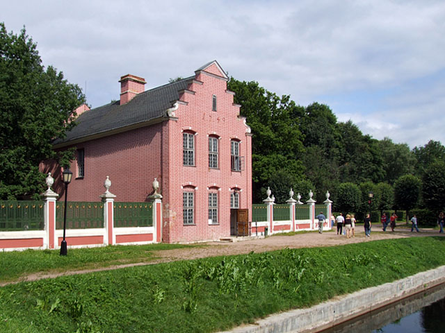 Kuskovo. Moscow.